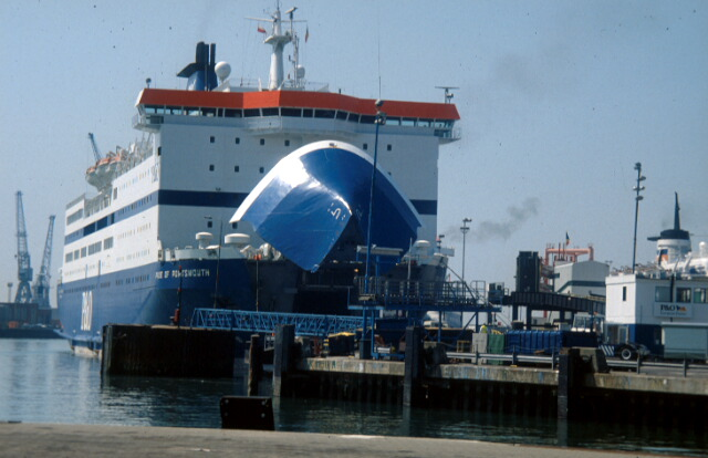 Portsmouth continental ferry port Ready for embarkation to Le Havre, on board P&O's Pride of Portsmouth.